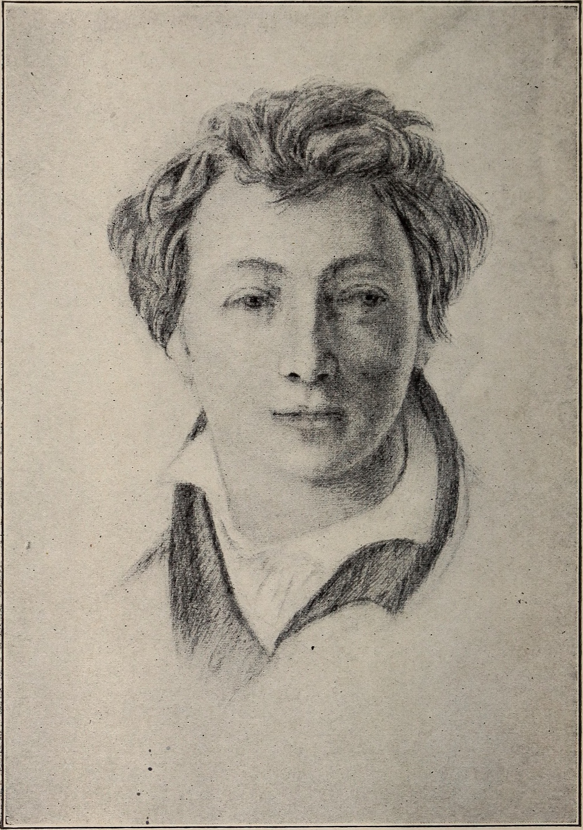 Title: Die Harzreise und Buch Le Grand Year: 1912 (1910s) Authors: Heine, Heinrich, 1797-1856 Fife, Robert Herndon, 1871-1958, ed Subjects: Publisher: New York, H. Holt and Company Text Appearing Before Image: By Paul R. Pope of Cornell Univer-sity. 90 cents. Wenckebachs German Composition based on Eumorous Stories.By Carla Wenckebach, late of Wellesley College. $1.00. Whitney and Stroebes Advanced German Composition. By M. P.Whitney and L. L. Stroebe of Vassar College. 90 cents. Schrakamps Exercises in Conversational German. By JosephaSchrakamp. 55 cents. Stents Studien und Plaudereien. First Series. By S. M. Stern.With Grammatical Tables. $1.10. ■ Studien und Plaudereien im Vaterland. Second Series. By S. M. Stern and Menco Stern. $1.20. Voss Materials for German Conversation. By B. J. Vos of Indiana University. 75 cents. HENRY HOLT AND CO. 34WÄ^SS£mt 12 Vd\2 LIBRARY OF CONGRESS 0 022 012 364 9 Text Appearing After Image: §emrtd) ©eine in ©tubentenjafyren Wad) einer ^etdjmmg im 93eftfce be« £errn $arl SWetnert in £)effaurabiert bott SS. $rau8fopf Die £?ar3retfe unb 33ucfy £e (Branb £)einricfy fjetne EDITED WITH AN INTRODUCTION AND NOTESBY ROBERT HERNDON FIFE, Jr. Professor in Wesleyan Universitydieharzreiseundb00hein